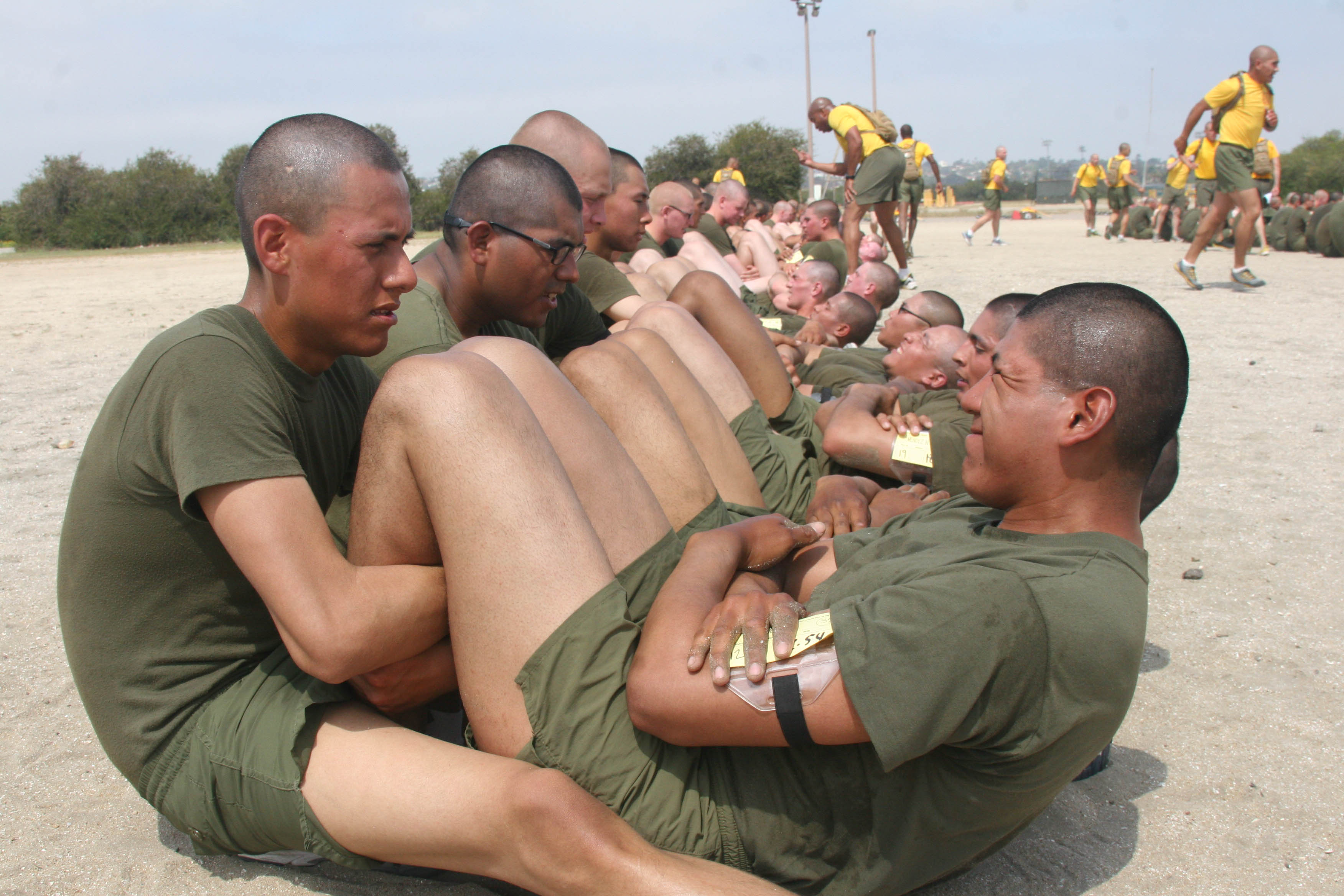 Recruits of Company E, 2nd Recruit Training Battalion, hold the legs of their fellow recruits and count the number of crunches each does during the inventory physical fitness test May 7 aboard Marine Corps Recruit Depot San Diego. The inventory PFT allows recruits to see where they stand in their physical performance before they run the final PFT the following week.